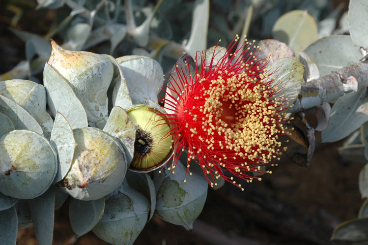 Flower buds and flower of Eucalyptus macrocarpa in Kings Park Botanic Gardens, Perth, Western Australia